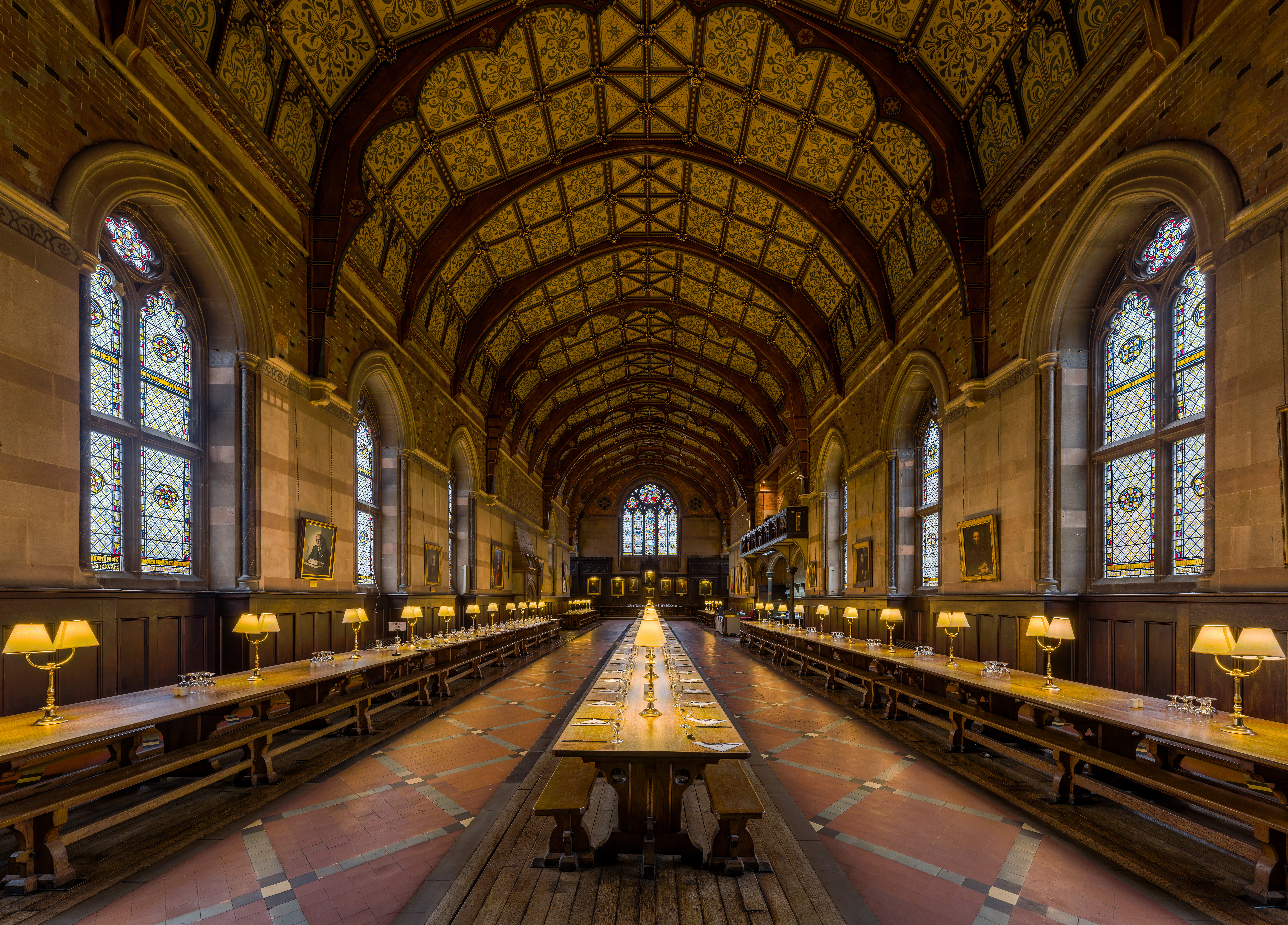 The interior of the Dining Hall at Keble College in Oxford, England.